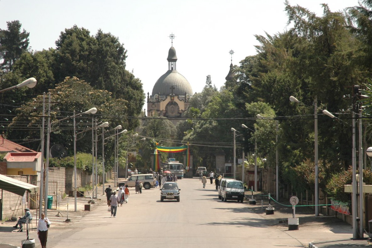 Holy Trinity Cathedral, Addis Abeba, Ethiopia